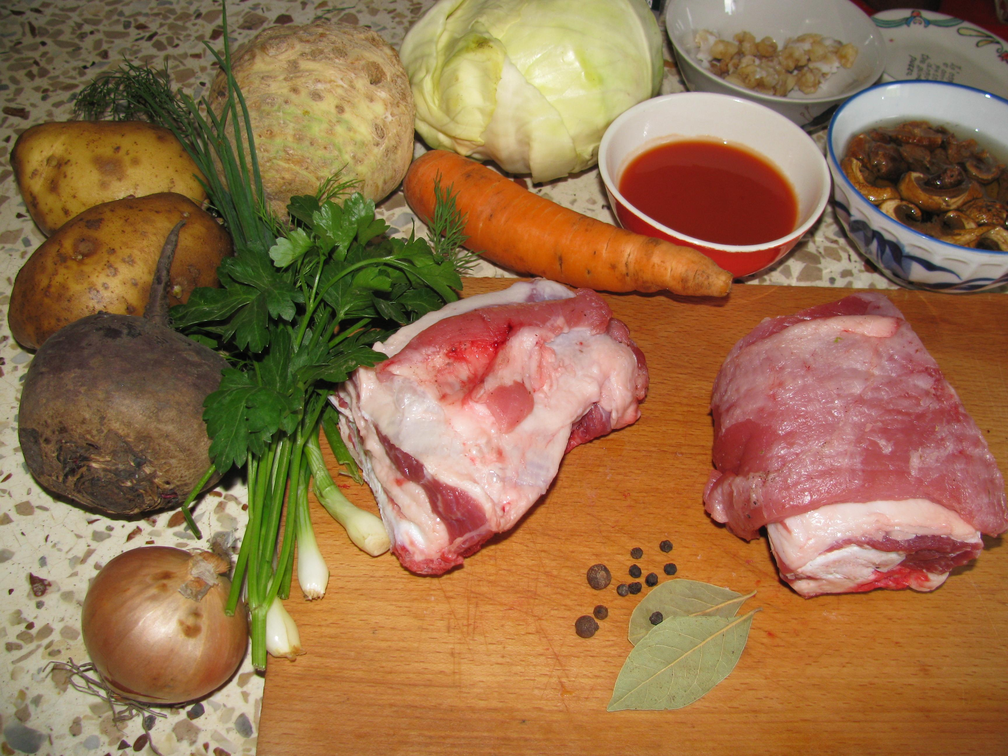 ingredients for borscht with mushrooms